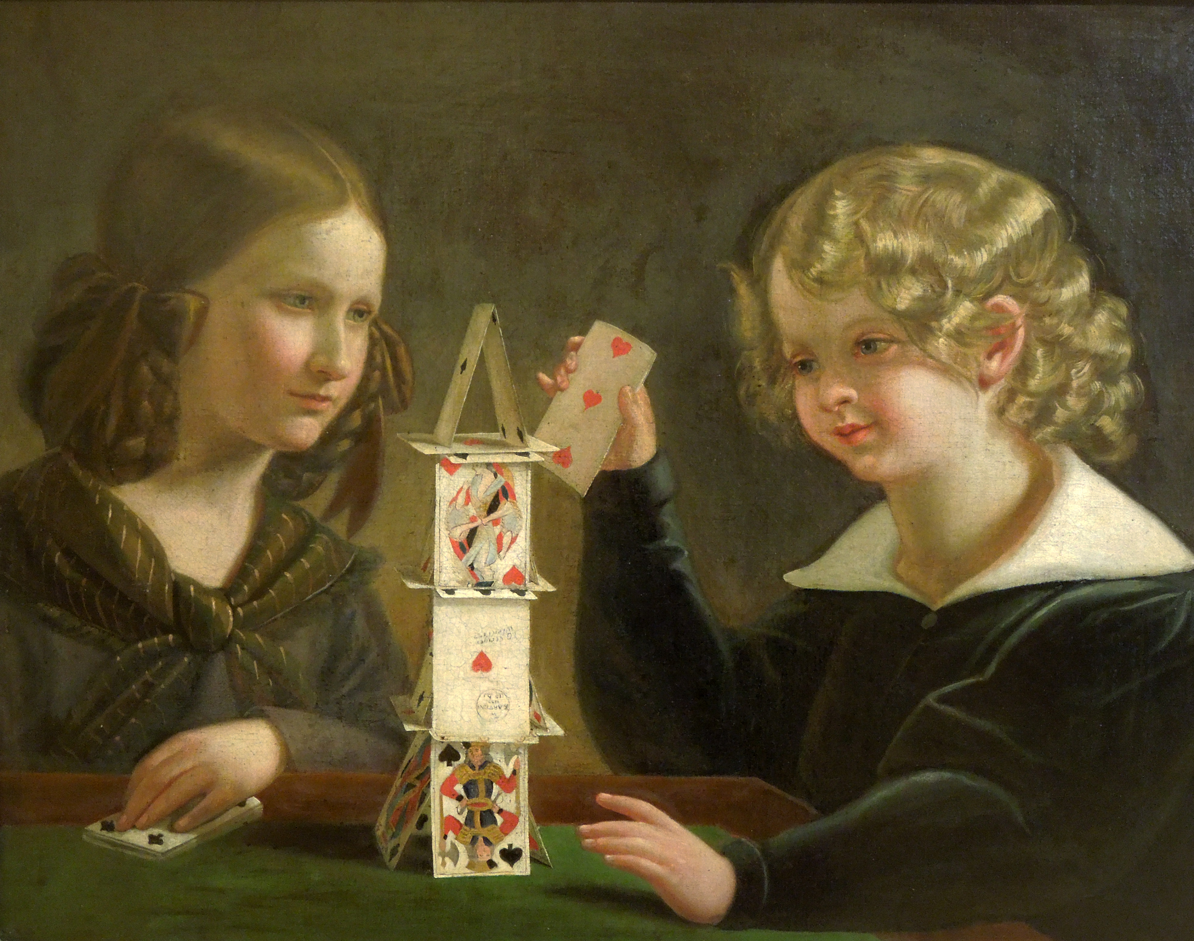 Jan Maszkowski (1794-1865) - The Artist's Children (1844)